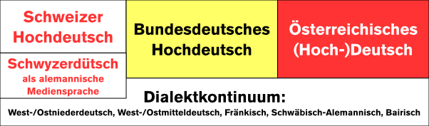 Varieties of the German Language